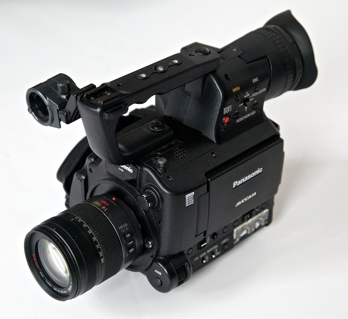 I, the creator and author of this image, grant Creative Commons 3.0 rights